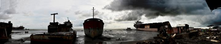 a 160 degrees angle pano view of a shipbreaking yard in Chittagong by Idolhunter Lckuang